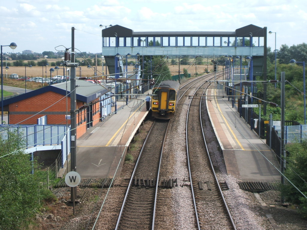 Adwick-le-Street railway station, YorkshireOpened in 1993 by British rail on the line from Doncaster to Wakefield. View south east towards Bentley and Doncaster.